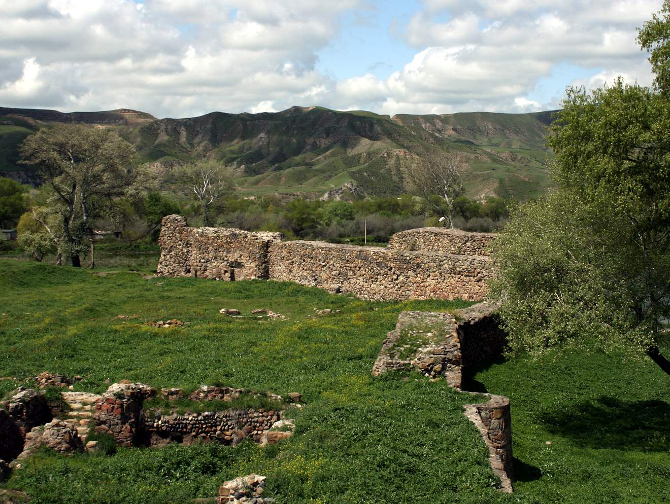 Rustavi fortress. The north side